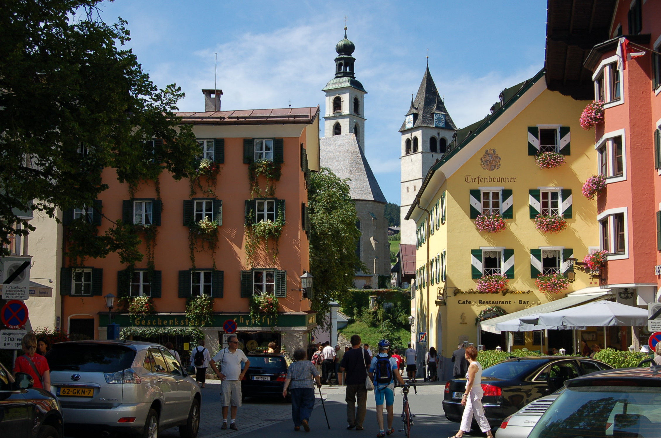 Kitzbühel, Tyrol